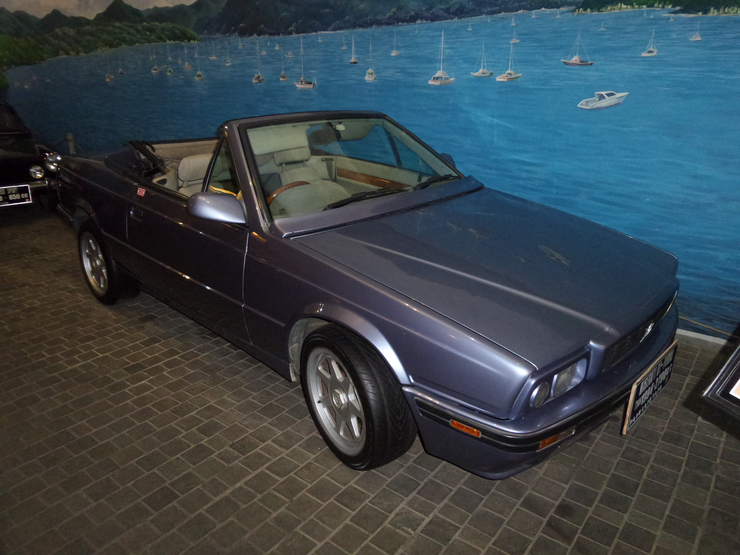 Another 90ies collection on Museum Angkut. Mobil era 1990an di Museum Angkut.